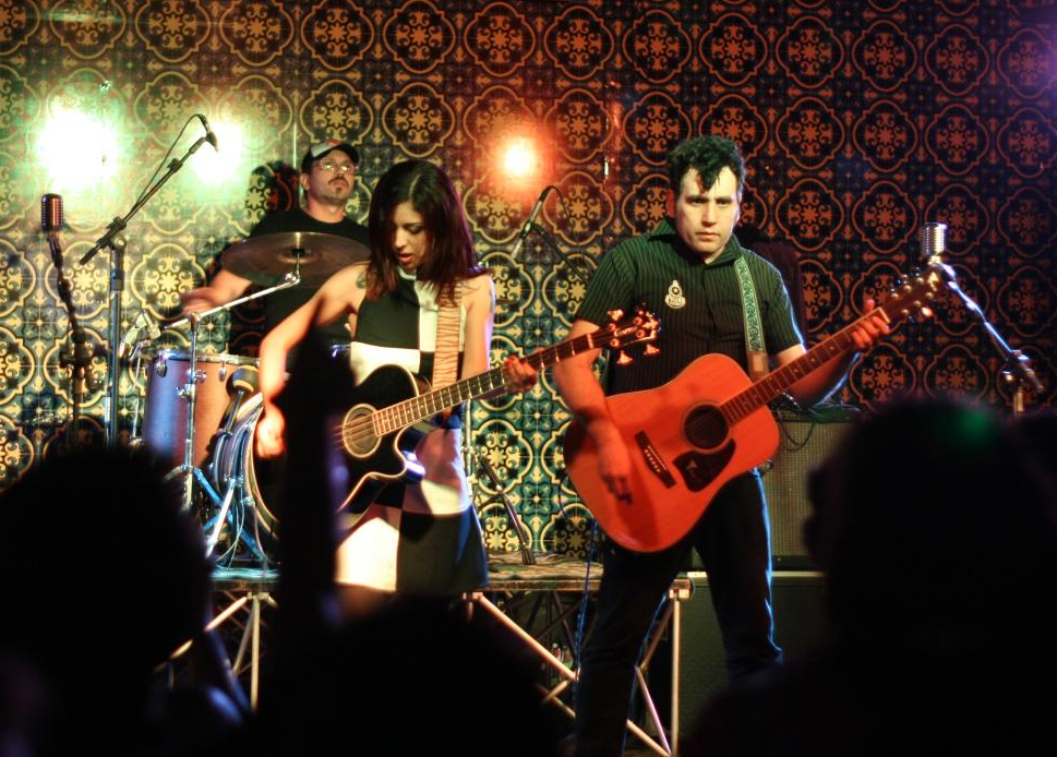 Brazilian group Autoramas, Bar Valentino, Londrina, April 2010